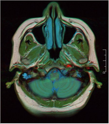 Brain MRI 57M